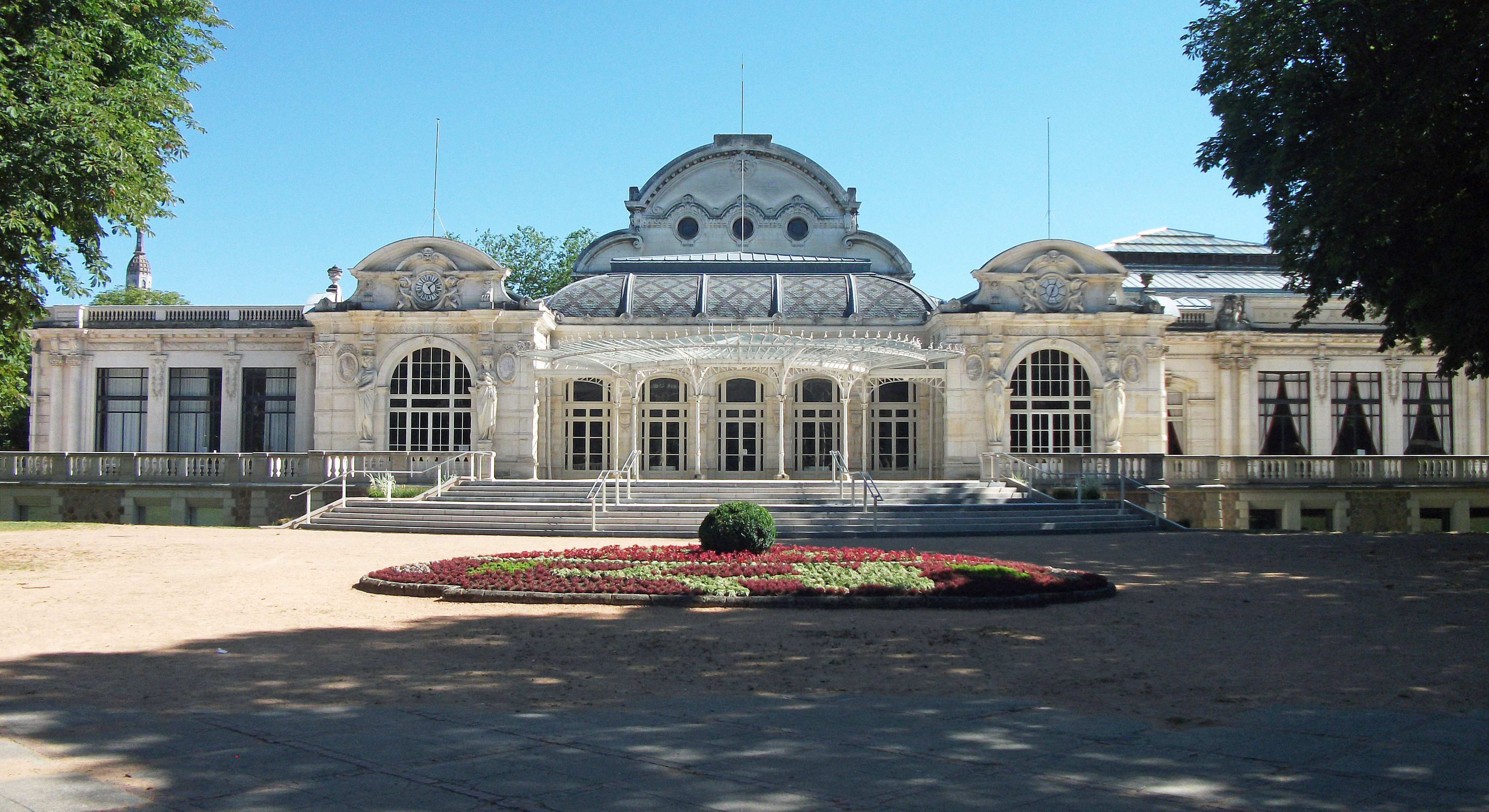 Palais des Congrès-Opéra in Vichy, Allier, Auvergne-Rhône-Alpes, France. [11023]